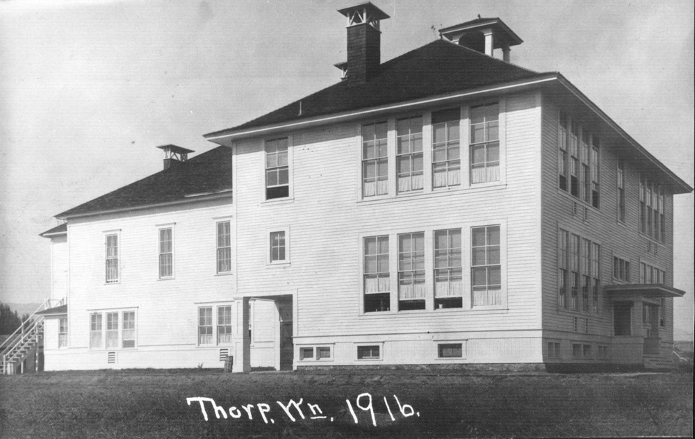 Thorp School ca. 1916. Thorp, Washington.